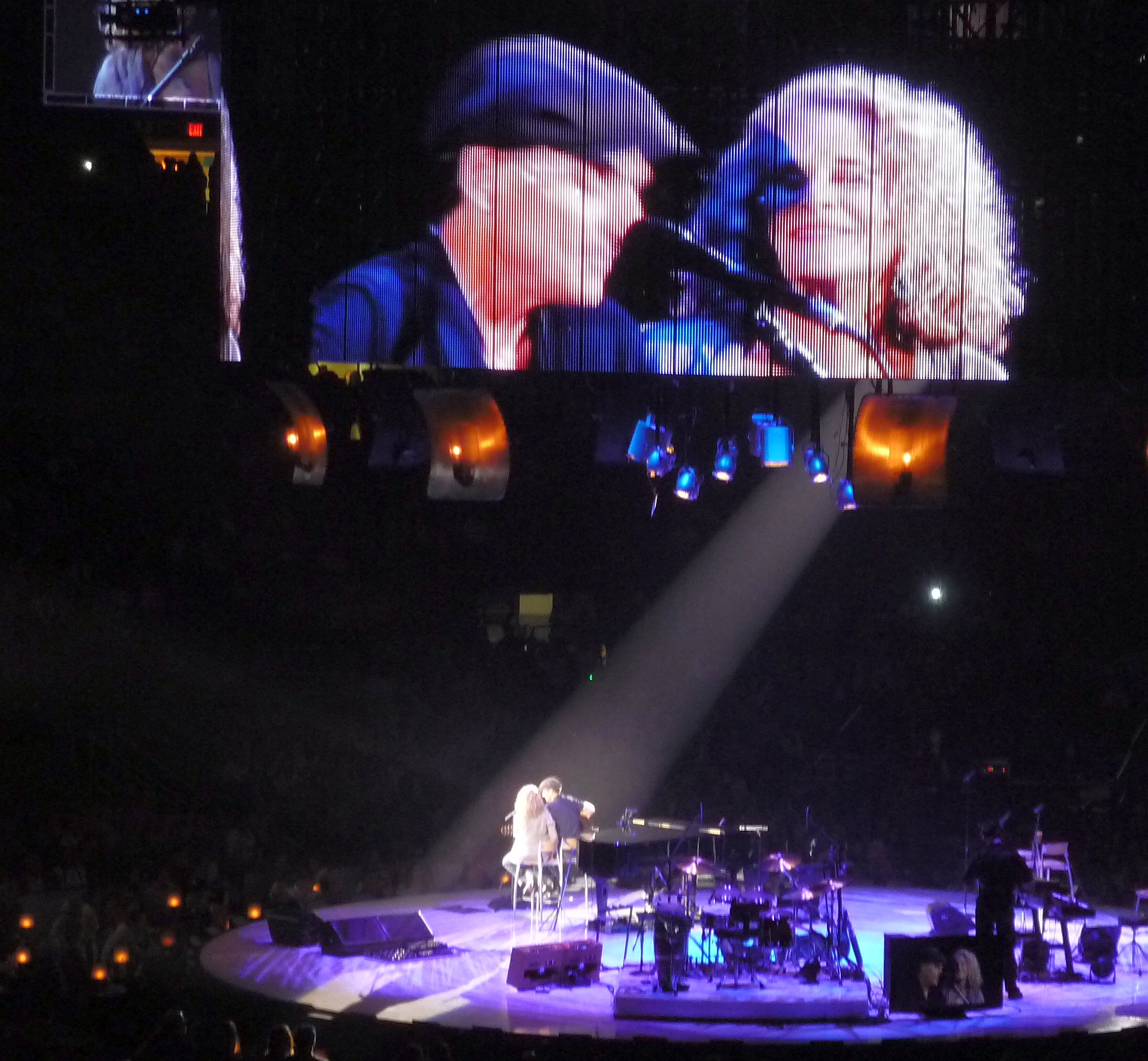 "You Can Close Your Eyes" being performed by James Taylor and Carole King, without any backing band, as the final encore during a Troubadour Reunion Tour show at Madison Square Garden in New York.